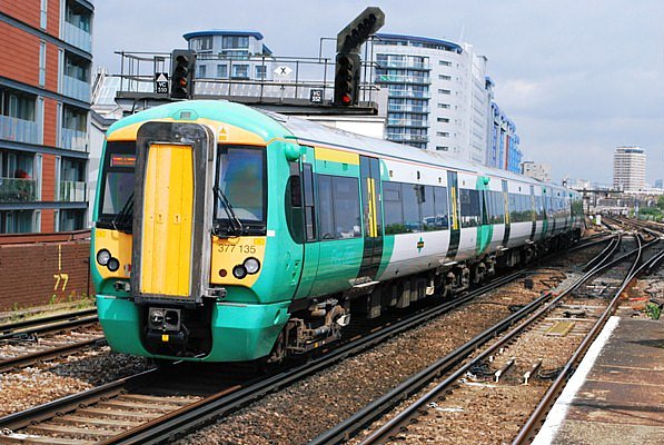 Bombardier (Derby) Class 377/1 "Electrostar" 750v dc 3rd rail outer-suburban 4-car emu No.377 135 of Southern passing Battersea Park, 06/10.